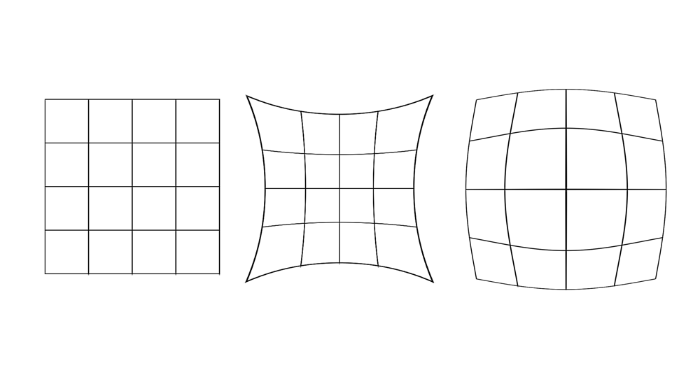 Distorsion